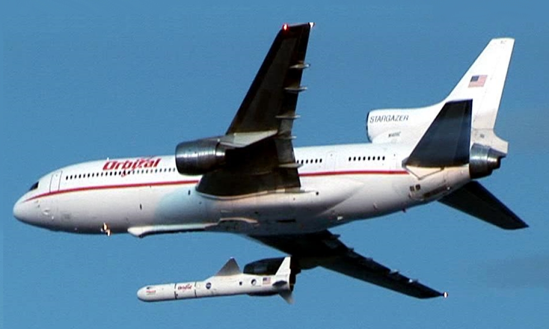 Orbital Sciences' L-1011 jet aircraft releases the Pegasus rocket carrying the Space Technology 5 spacecraft with its trio of micro-satellites. The Pegasus will launch the trio of satellites in a "string of pearls" sequence on a near-Earth polar elliptical orbit that will take them from approximately 190 miles (300 kilometers) to 2,800 miles (4,500 kilometers) from the planet. The three spacecraft will conduct science validation using measurements of the Earth's magnetic field collected by the miniature boom-mounted magnetometers on each.